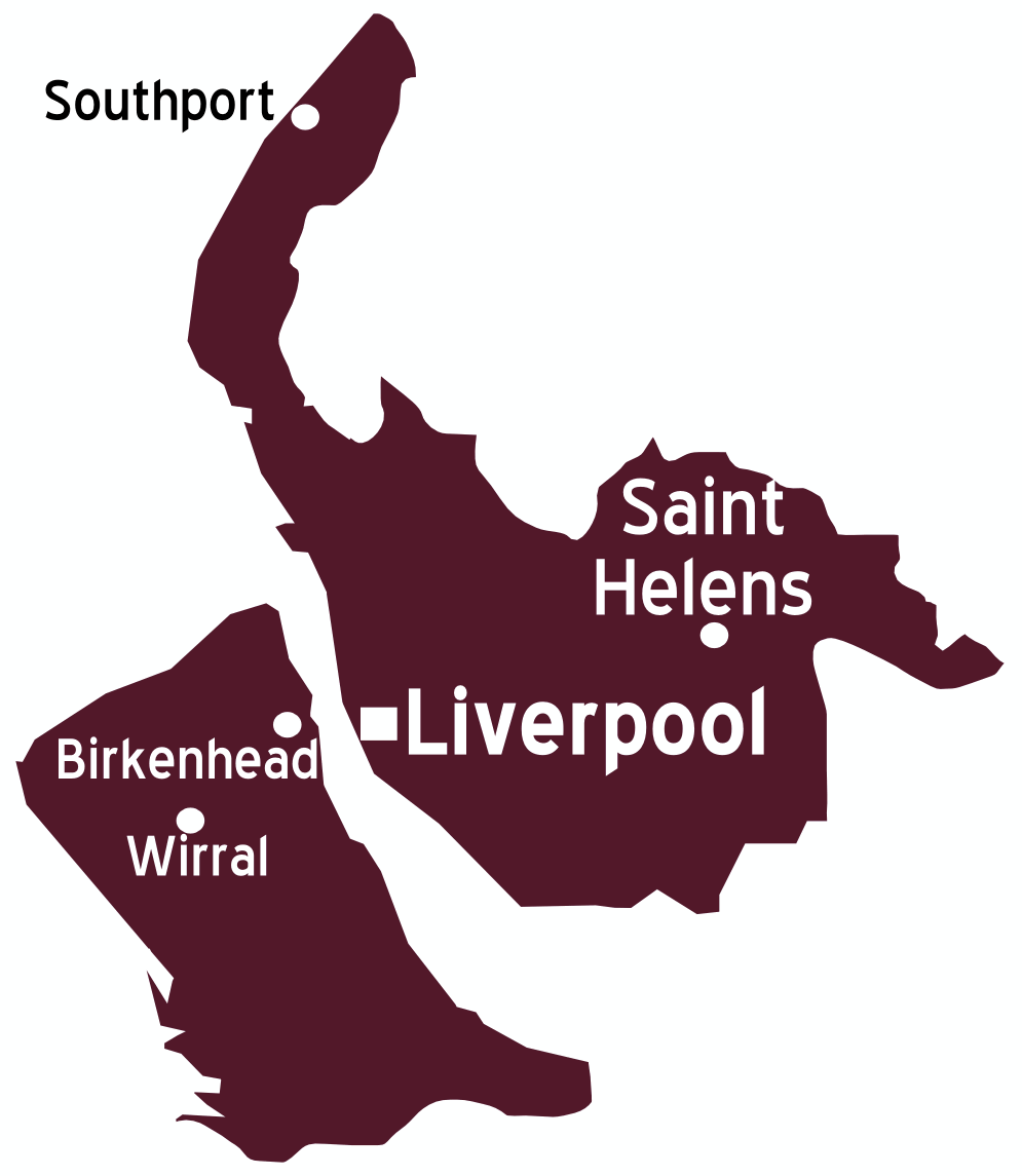 Map of Merseyside Source: :Image:UK map.svg map: England Map of: England